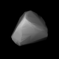 3D convex shape model of 934 Thüringia, computed using light curve inversion techniques. J. Hanuš, J. Ďurech, M. Brož, B. D. Warner (June 2011). "A study of asteroid pole-latitude distribution based on an extended set of shape models derived by the lightcurve inversion method". Astronomy and Astrophysics 530: A134. ISSN 0004-6361. arXiv